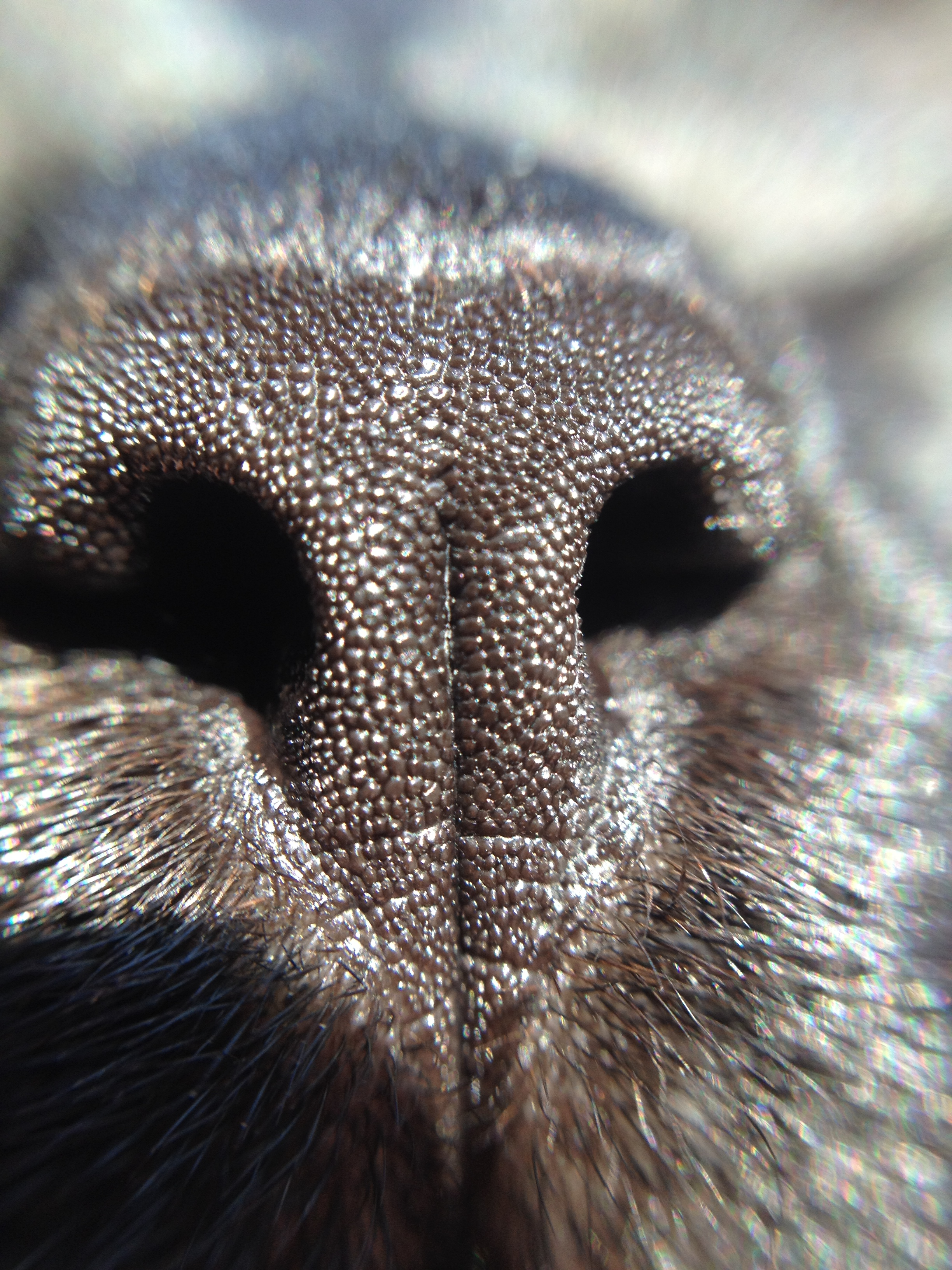 The nose of a common house cat Felis silvestris catus, tortoise-shell in colour.